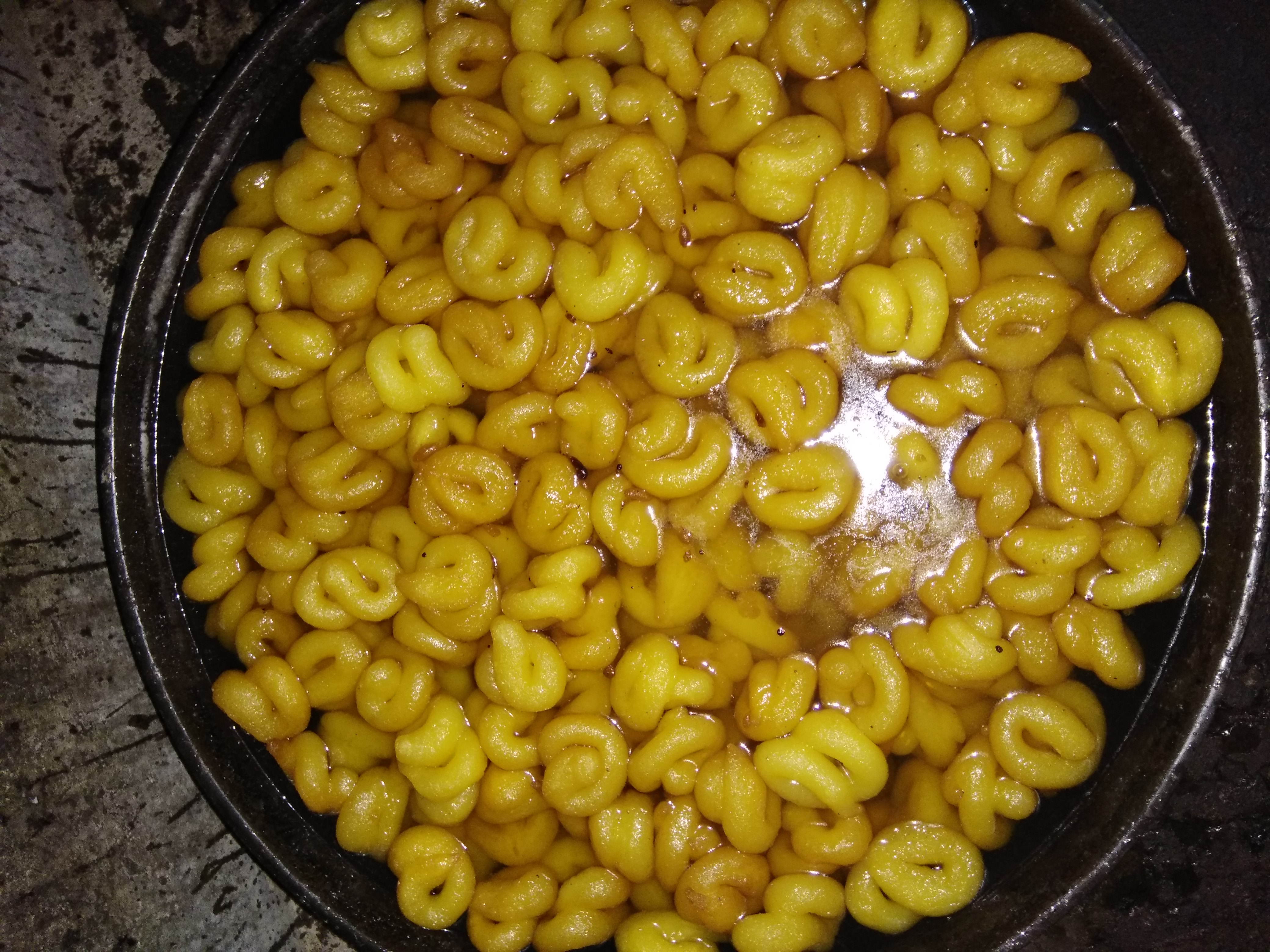 Muger Jilipi from Balichak